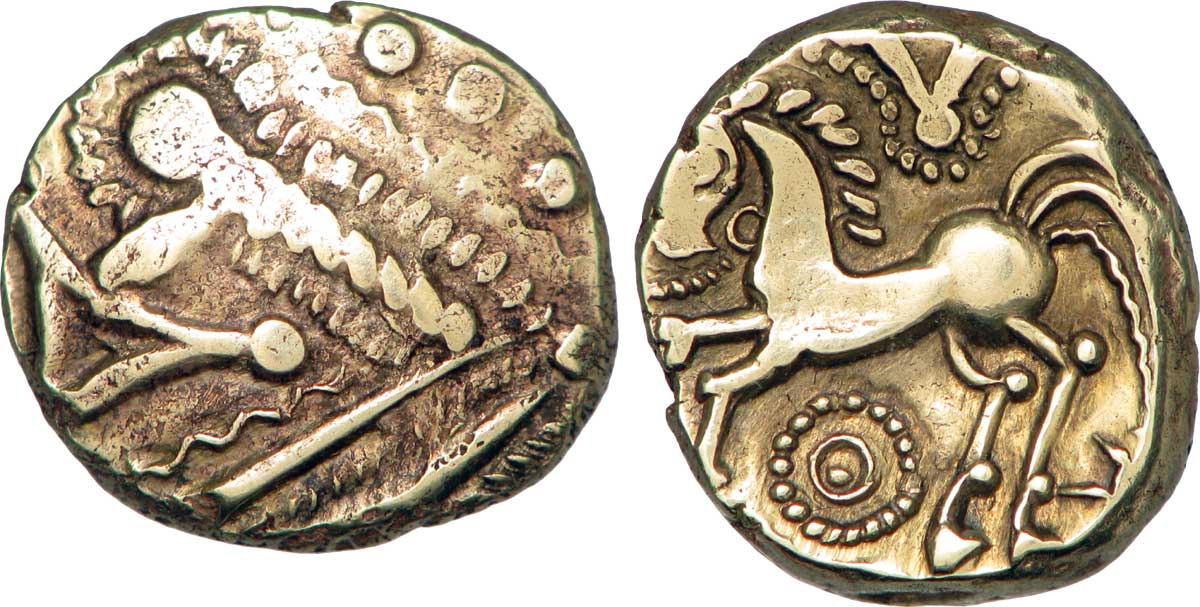 Rèmes (Région de Reims) Statère à l'œil, classe I variante à gauche, or frappé, Date : c. 100-50 AC. Description revers : Cheval bondissant à gauche, un V pointé et entouré d'un cordon perlé. Un annelet pointé et encerclé d'un cordon perlé entre les jambes. Un astre (?) derrière la jambe arrière. Un petit annelet et un cordon perlé en guise de rène devant le poitrail . Description avers : Tête à gauche, résumée à un œil triangulaire, accosté d'une ligne de zigzag, et surmonté de trois gros globules .